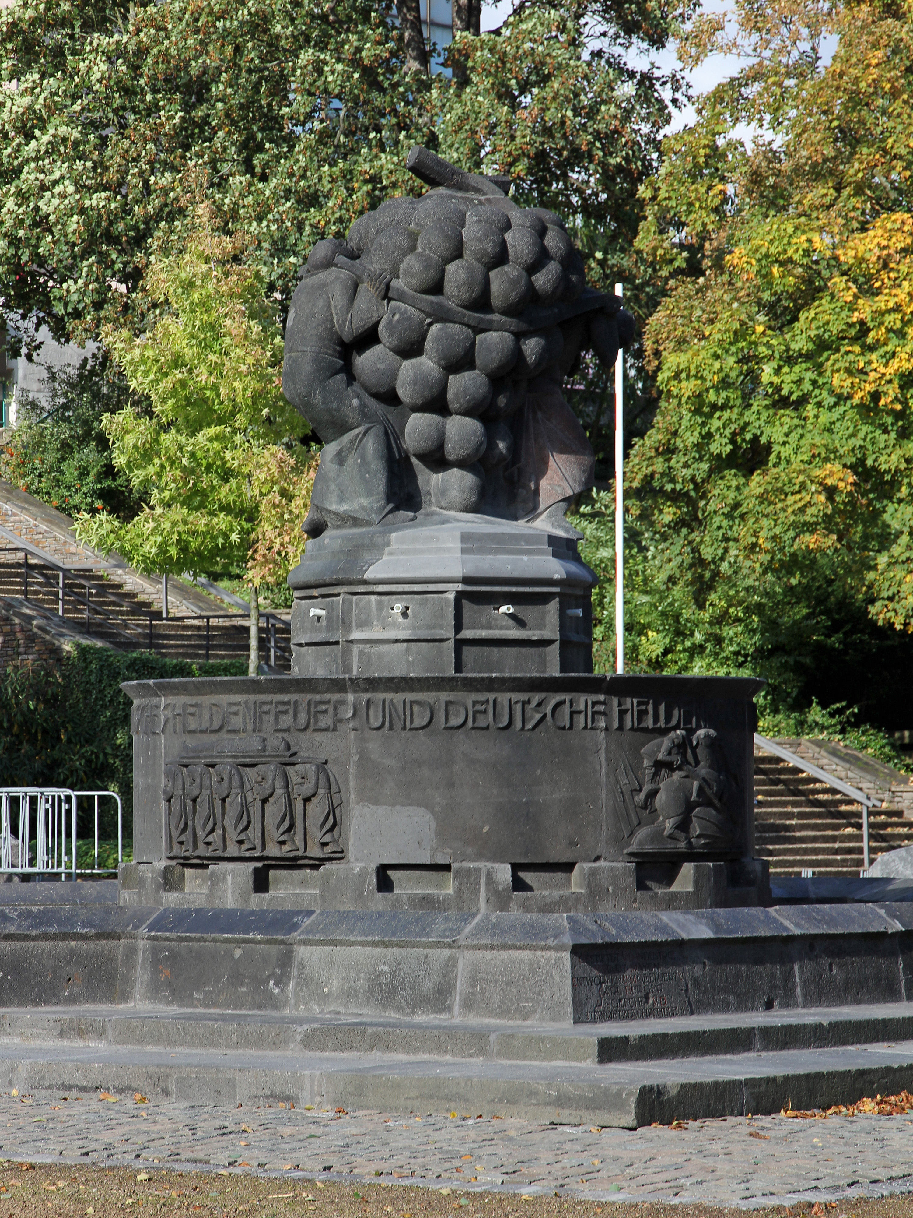 Wine fountain in the rhine gardens of Koblenz